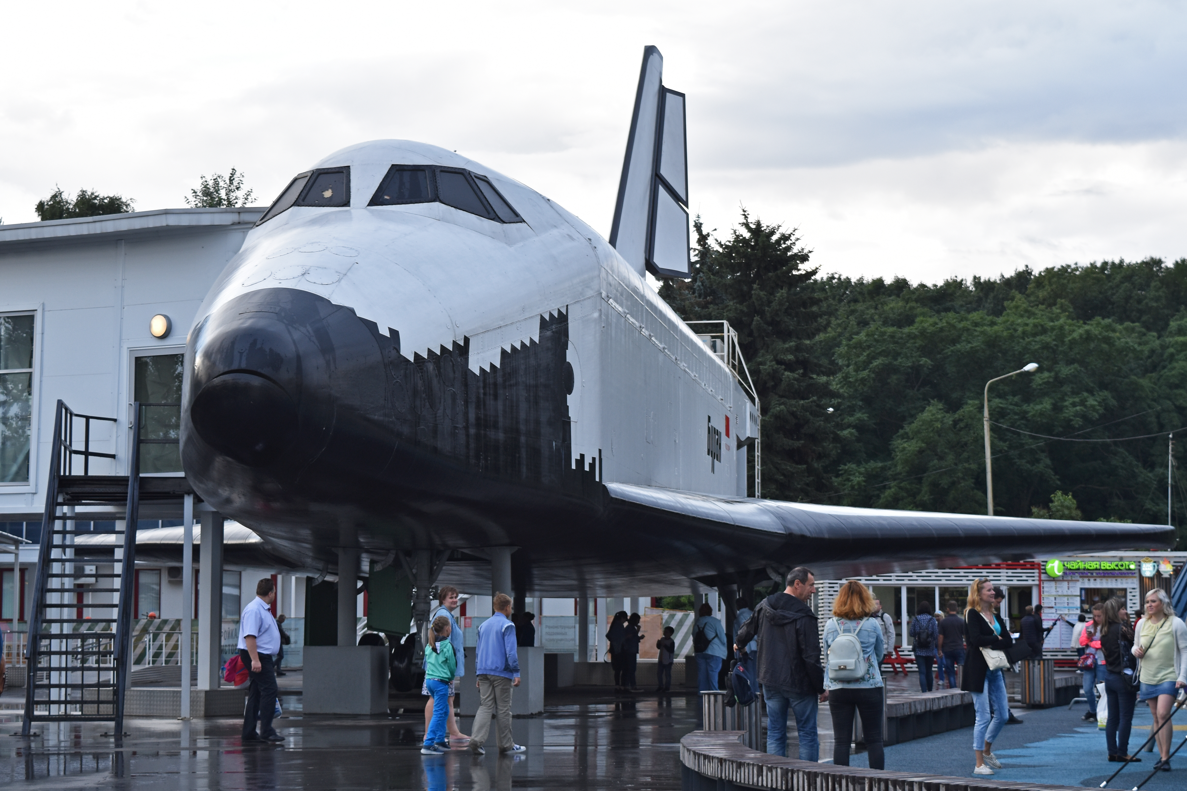 While the identity of this shuttle is well known, how you present it is rather confusing, to say the least. Scramble reported the c/n as 1M-0.01 and its designation as OK-M, while Wikipedia gives it the identities ‘OK-7M’, ‘OK-TVA’ and ‘OK 0.15’. Its history, however, is much simpler. Built in 1983 and used for structural tests, it went on permanent display in Gorki Park when the project was cancelled 1993. In 2014 it was moved to its current location as part of the VDNKh (Vystavka Dostizheniy Narodnogo Khozyaystva / Exhibition of Achievements of National Economy). Moscow, Russia. 26th August 2017